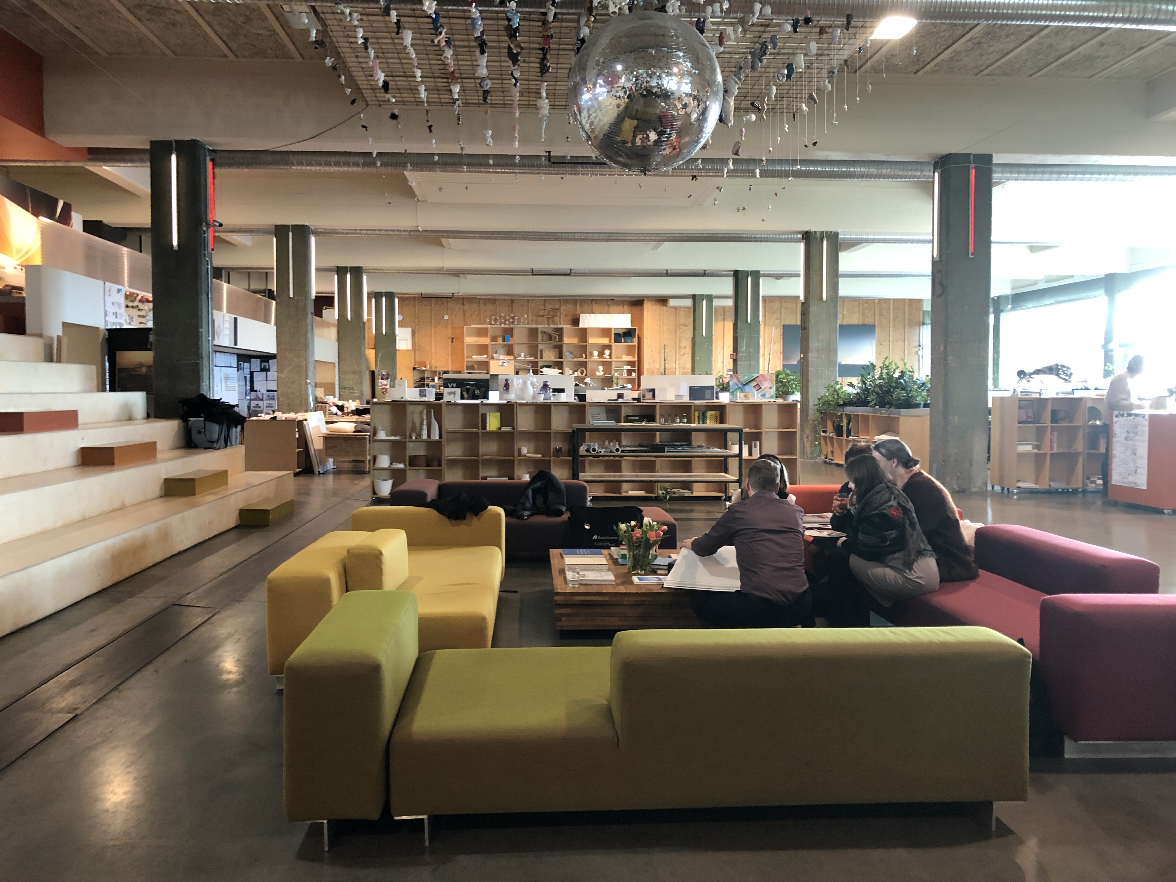 Oslo workshop - Movement brand project